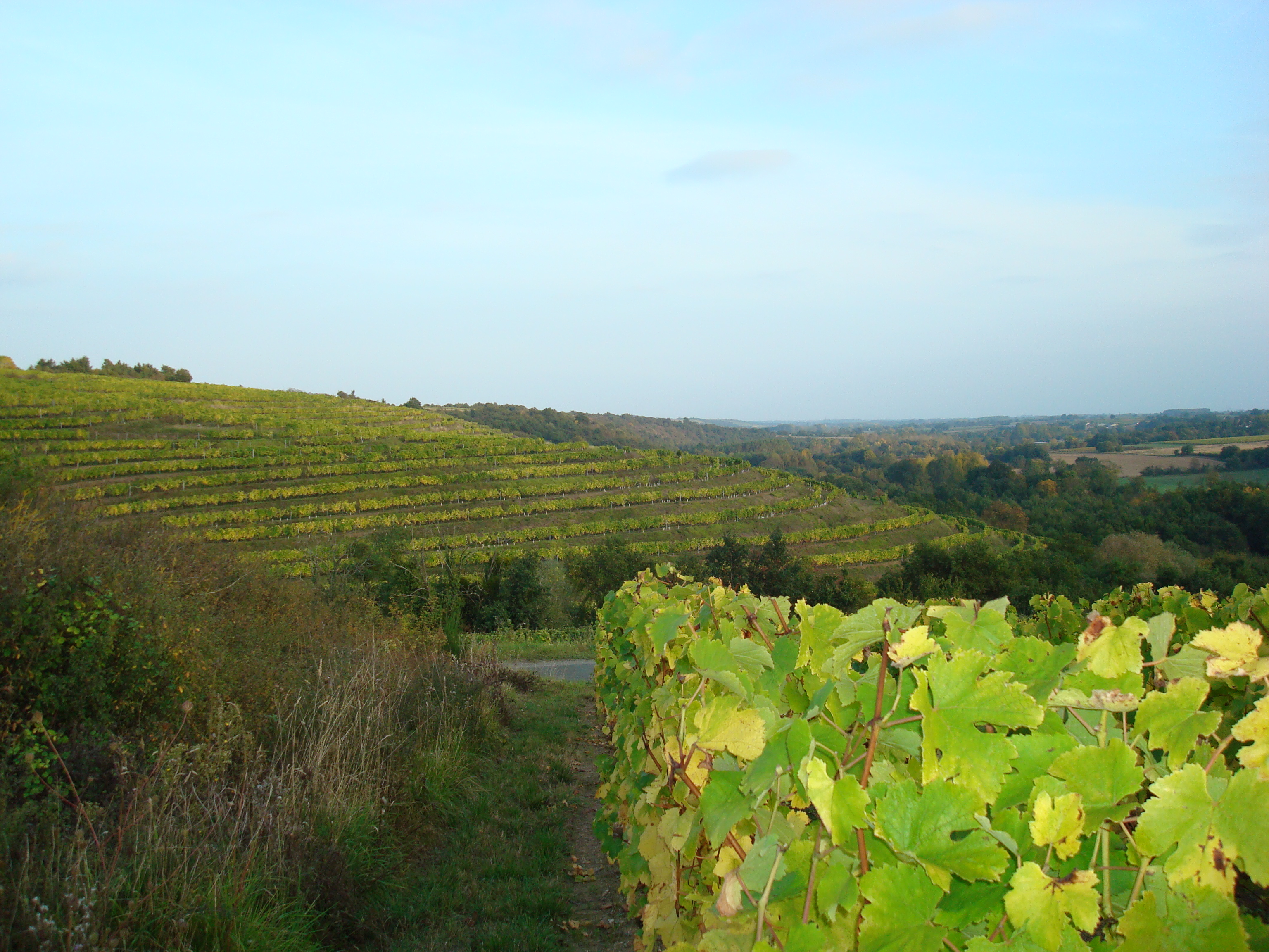 Coteaux du Layon